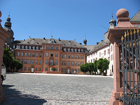 Courtyard of Schloss Wittgenstein